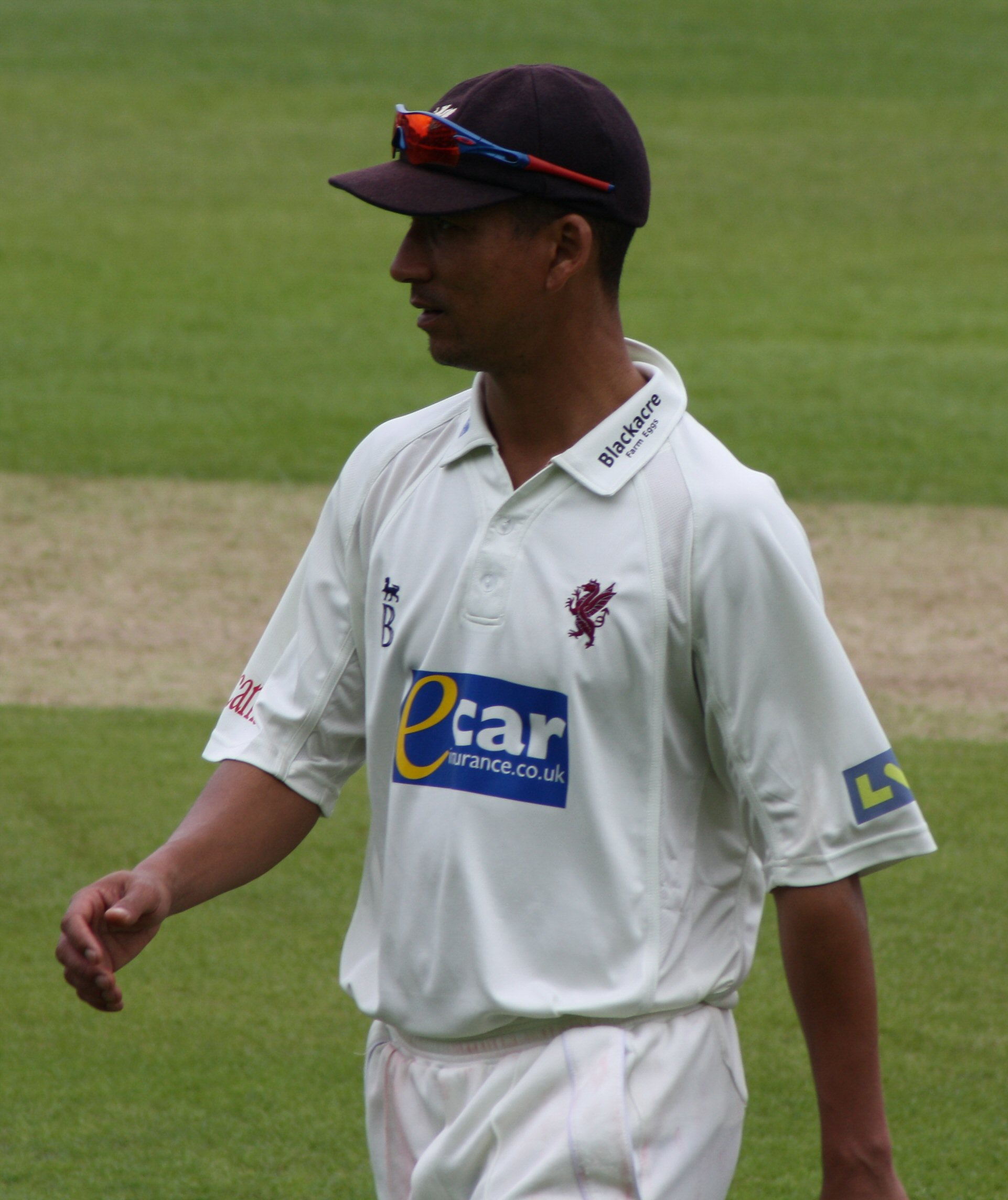 Alfonso Thomas in the field during a County Championship match for Somerset against Essex at the County Ground, Taunton.